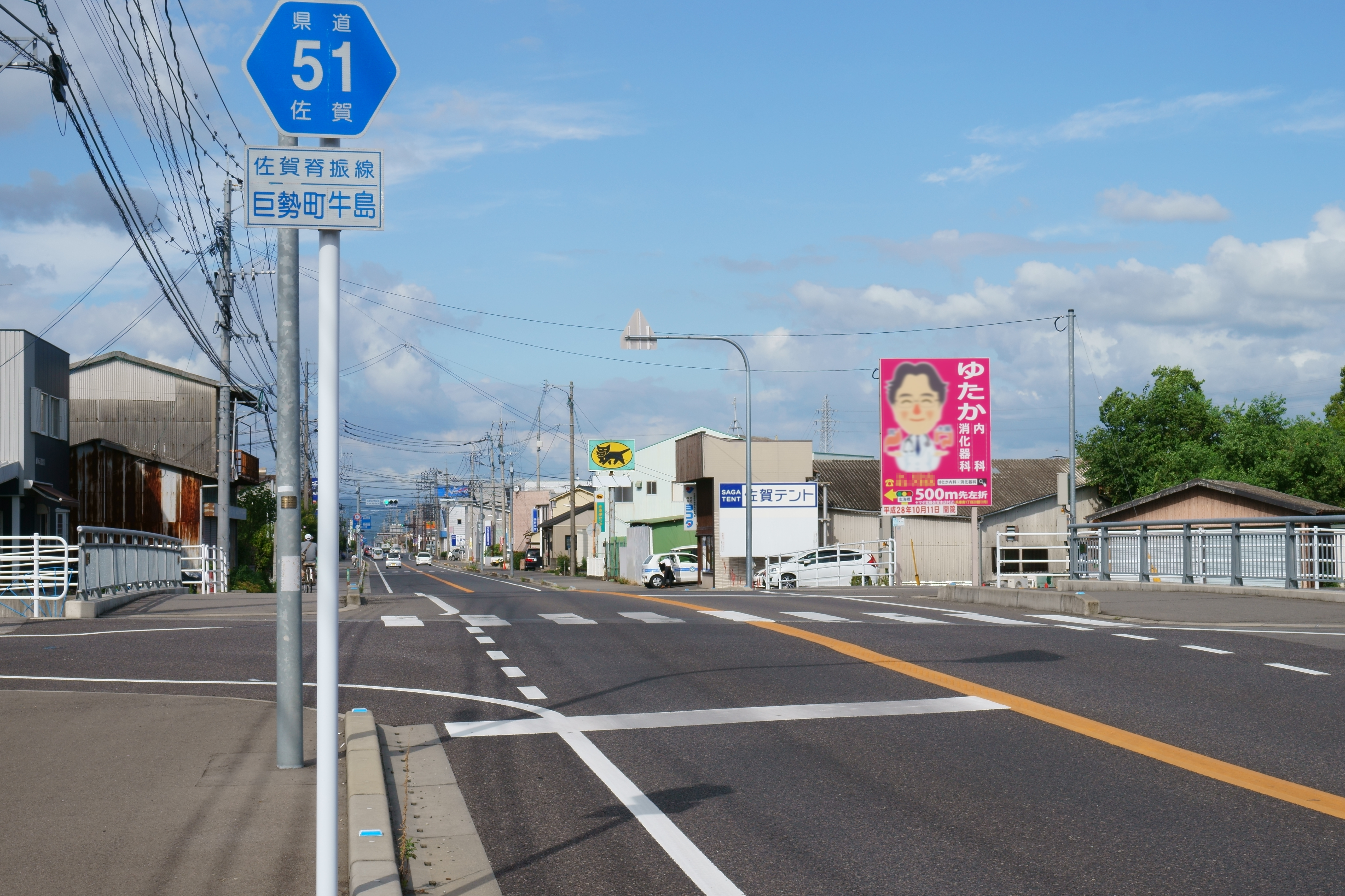 Saga prefectural road No.51 in Kose-machi Ushijima, Saga city.